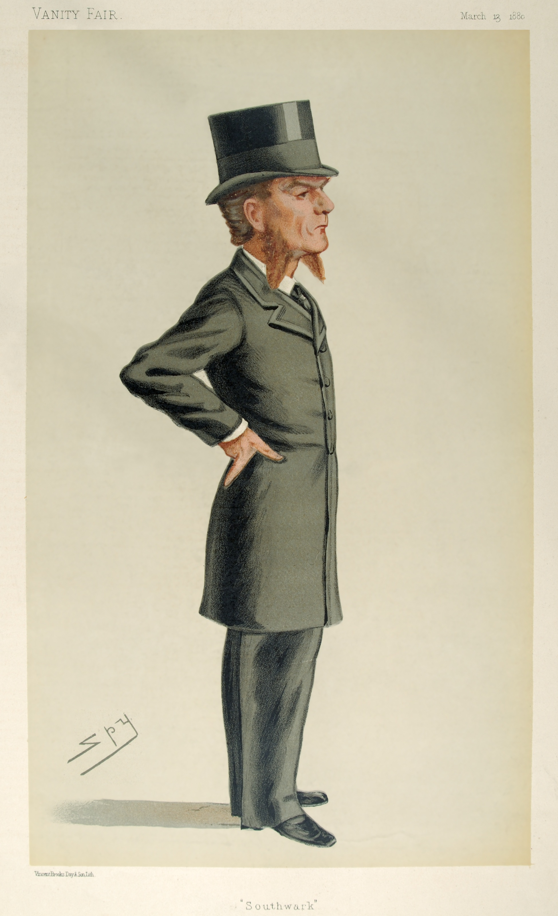 Statesmen No.323: Caricature of Mr Edward George Clarke MP. Caption reads: "Southwark"